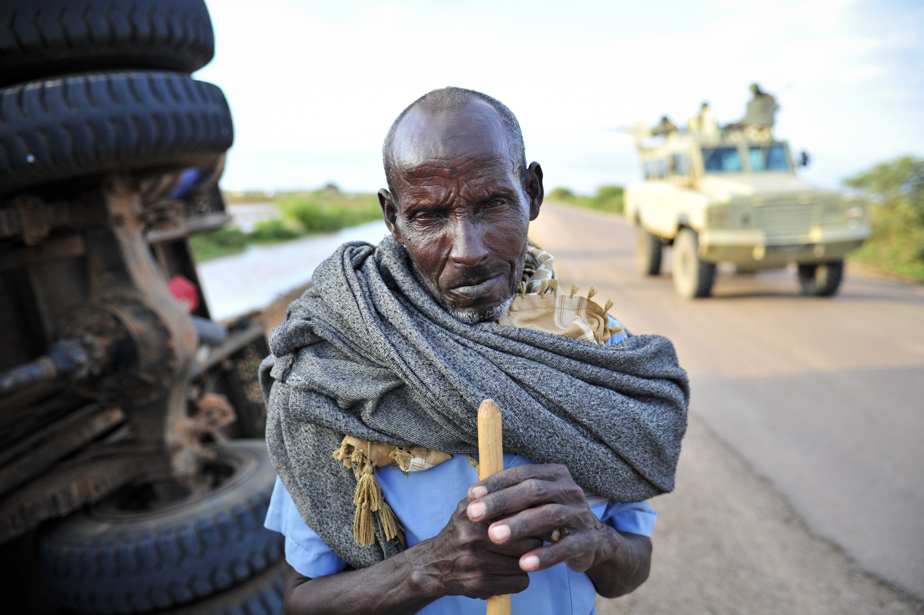 A man stands by an overturned truck on the road connecting Afgooye to Baidoa. Previously a road controlled by Al-Shabab, AMISOM have sent forces to try and gain control of the entire stretch up to Baidoa. AU-UN IST PHOTO / TOBIN JONES.